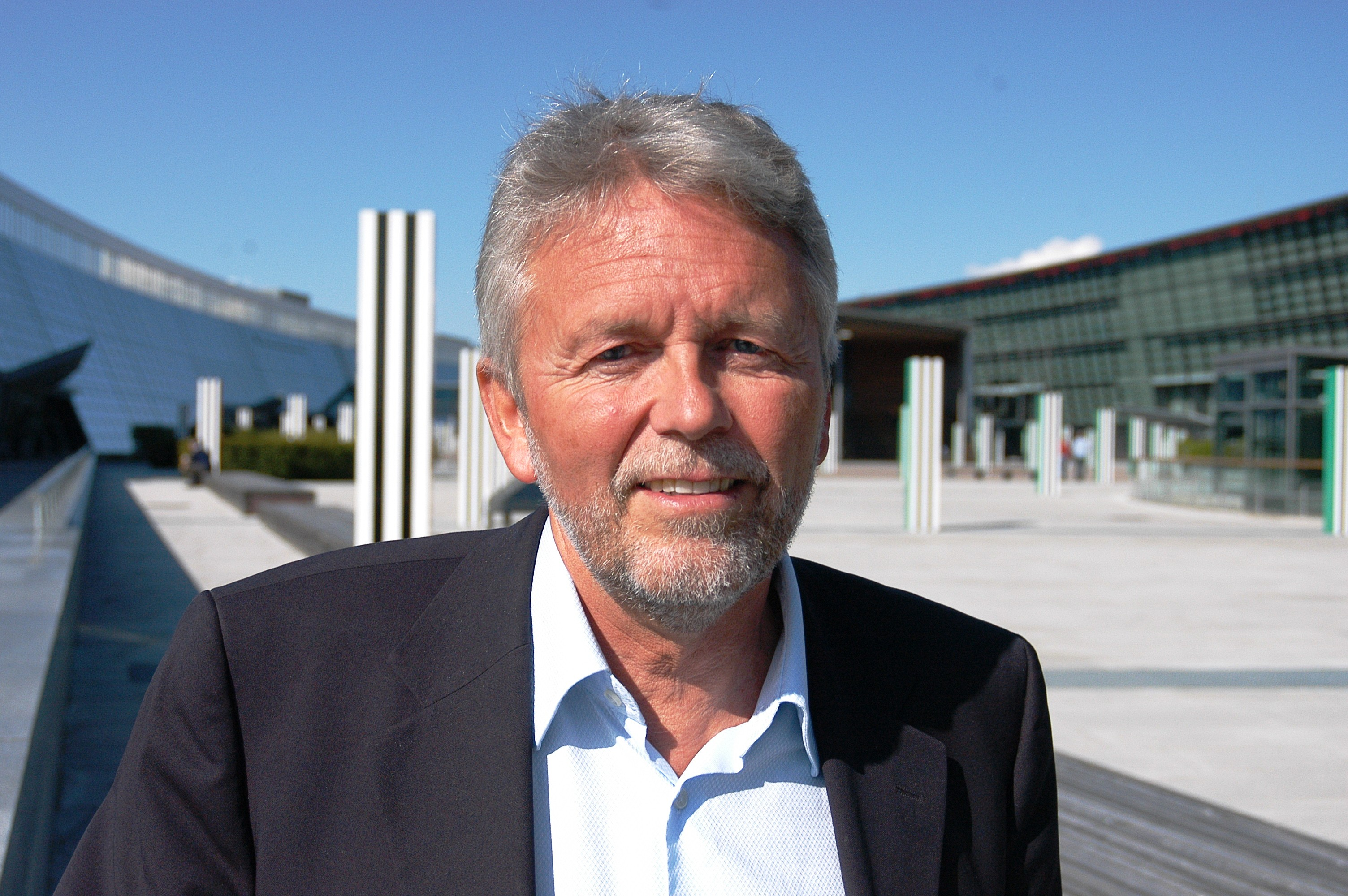 Oddvar Hesjedal, EVP HR of Telenor Group, former CEO of GrameenPhone (Bangladesh)